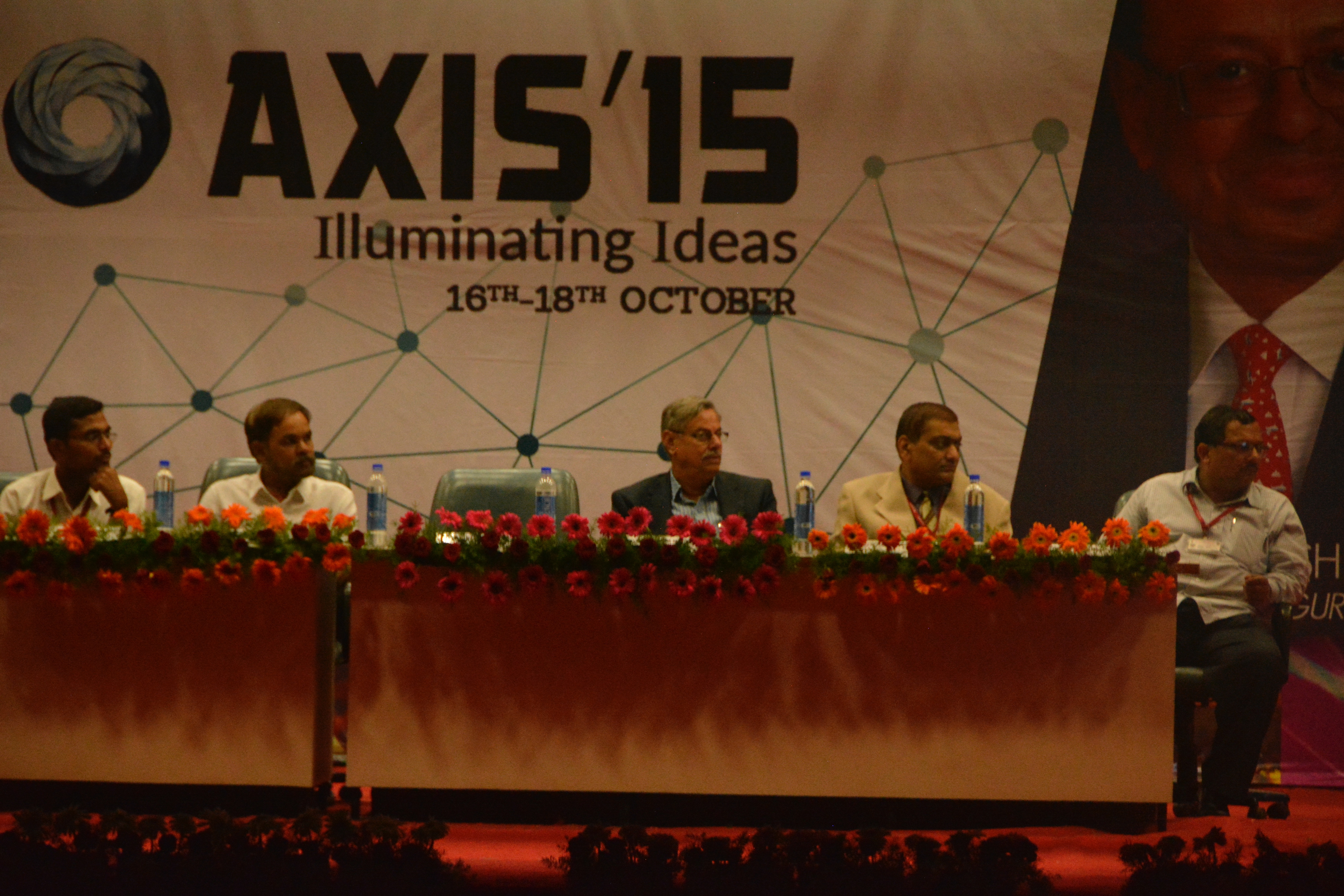 Inaugural evenings